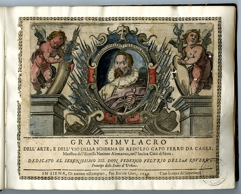 Title page from the 1629 edition of Ridolfo Capo Ferro's Gran Similacro